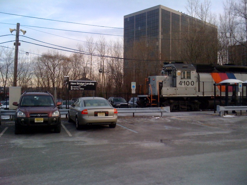 NJ Transit locomotive number 4100, a GP40PH-2 stopped at New Bridge Landing Station.